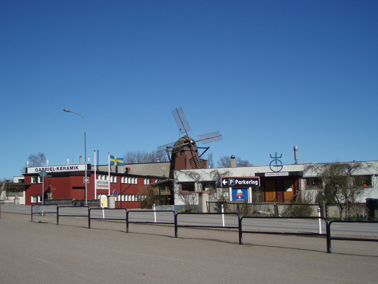 A pottery in Timmernabben, Sweden